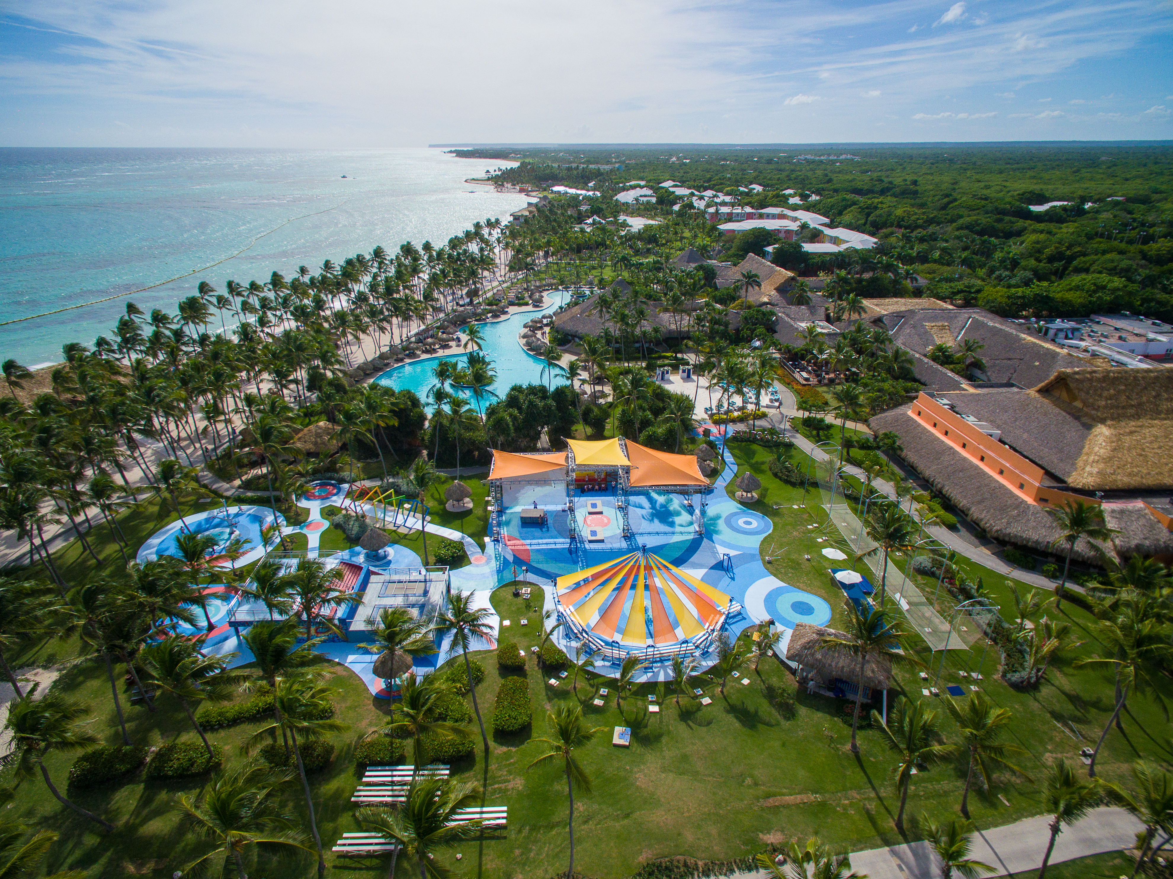 Aerial shot of Club Med Punta Cana (2015)